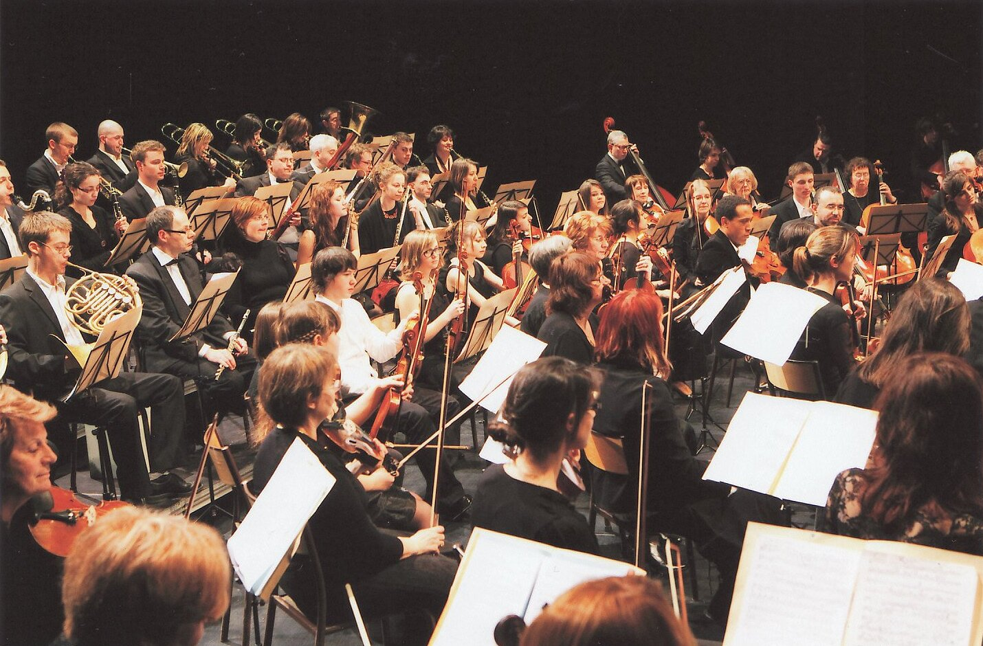 L'Orchestre Symphonique de la Communauté Le Creusot-Montceau en concert